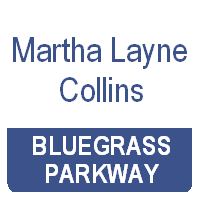 Martha Layne Collins Bluegrass Parkway Shield